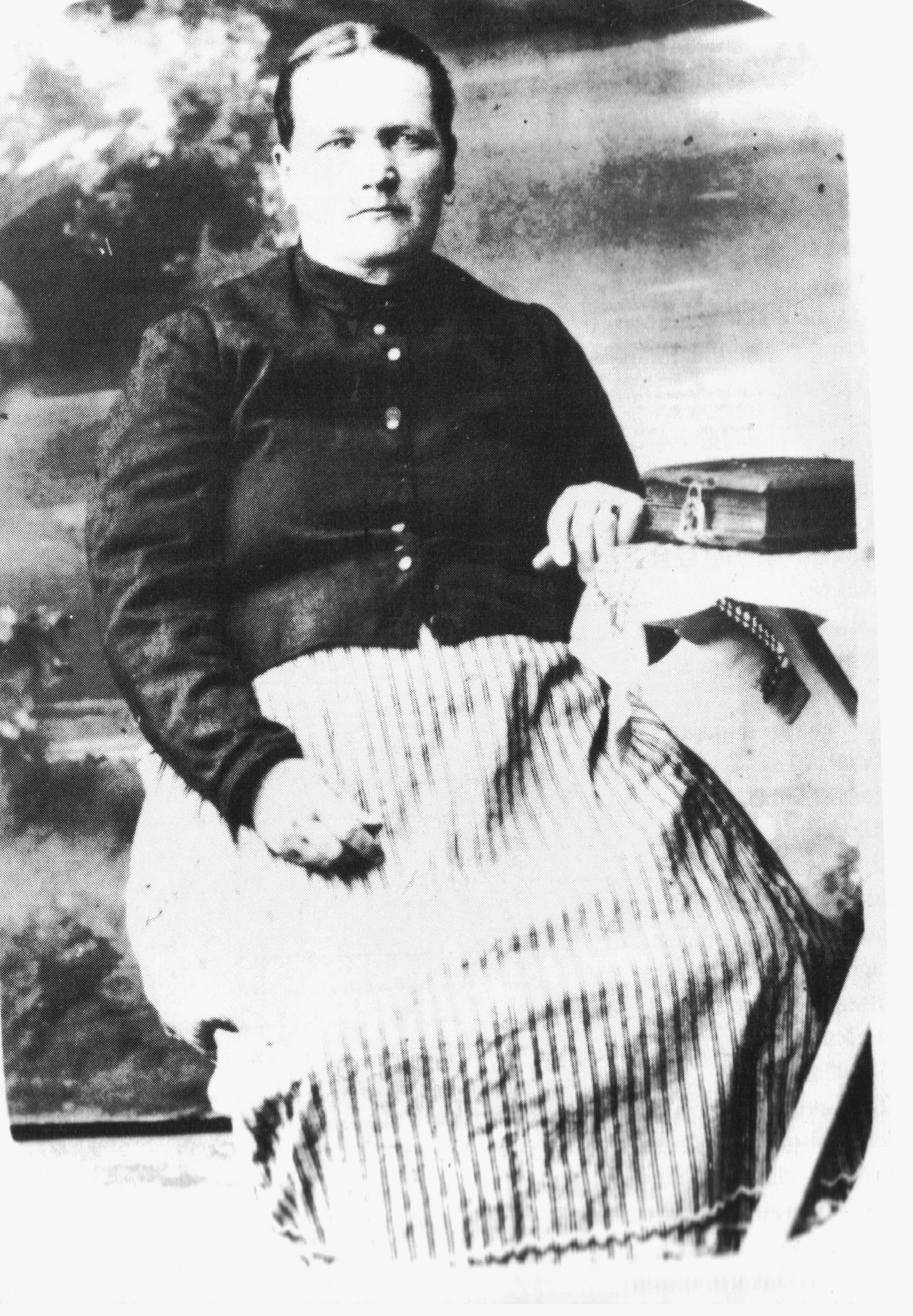 Finnish seer and nature healer Anna-Maria Mard (Mård, b. 1859 Piippola, Finland - d. 1927 Kiuruvesi, Finland)